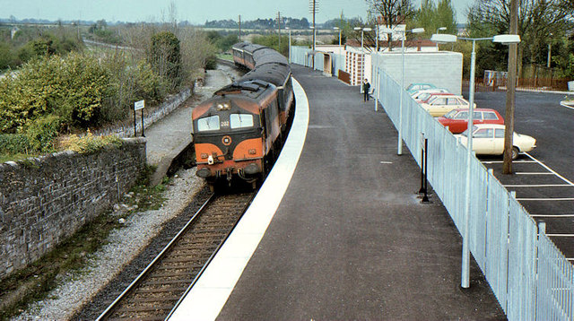 A CIE push-pull set (6111/202) on arrival at Leixlip with the 17.00 Maynooth – Dublin Connolly. The station, on the Dublin – Sligo line, closed in 1947 and reopened in 1981 with the start of a new commuter service between Dublin and Maynooth. The line (single in this photograph) was doubled in 2001 and the station rebuilt. Now called “Leixlip Louisa Bridge” to distinguish it from the nearby Leixlip (Confey).